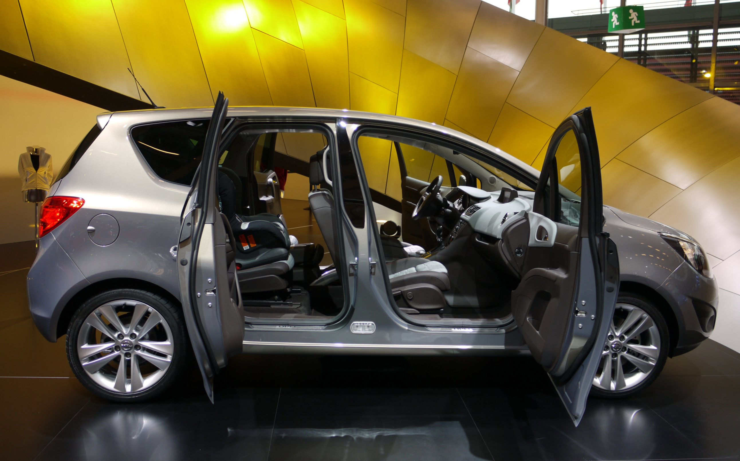 Opel Meriva - first and only car in the MPV class to have rear-hinged rear doors, which Opel call 'FlexDoors'.